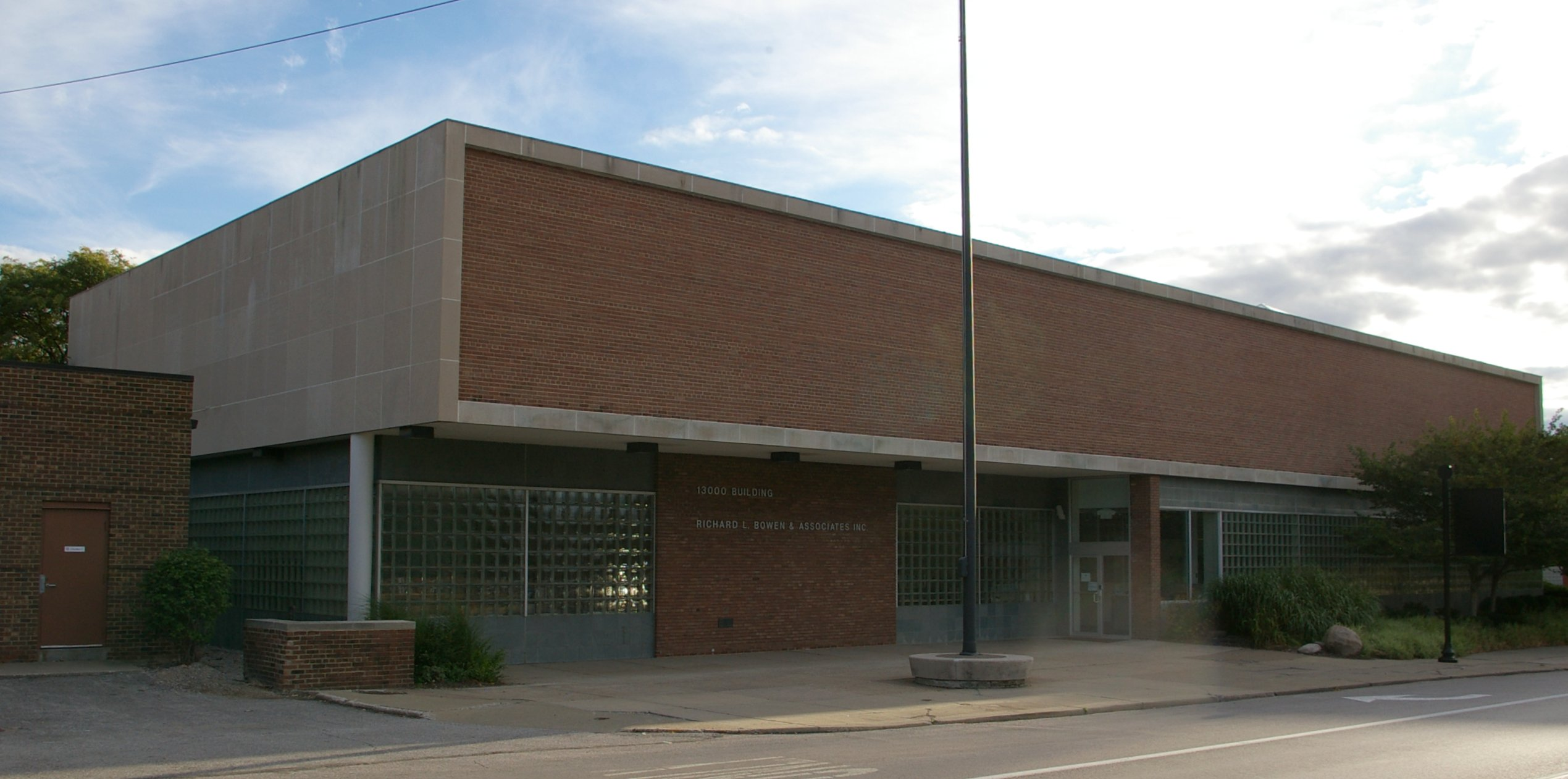 A view of the building that was formerly Halle's Shaker Square at 13000 Shaker Boulevard, in Cleveland, Ohio. The structure, built in 1948, was designed by architect Robert A. Little. It is listed on the National Register of Historic Places. This photograph illustrates the structure as built. Note that the area to the left that is now glass block was open, that there was an awning, and that the glass block along the front was, at the time, plate glass windows.